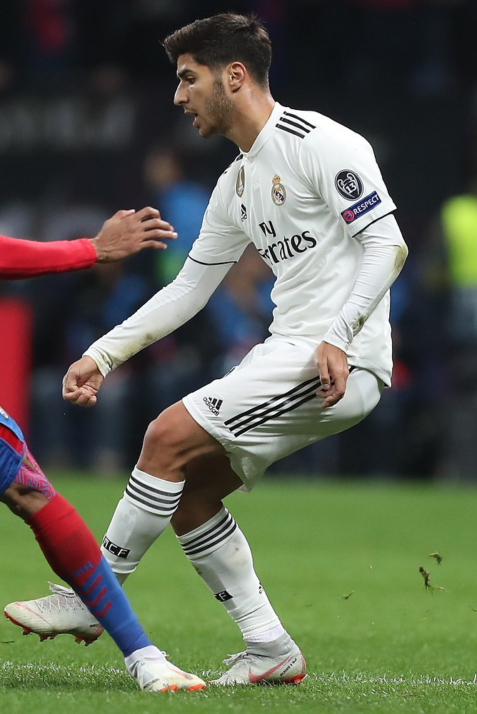 Marco Asensio in 2018